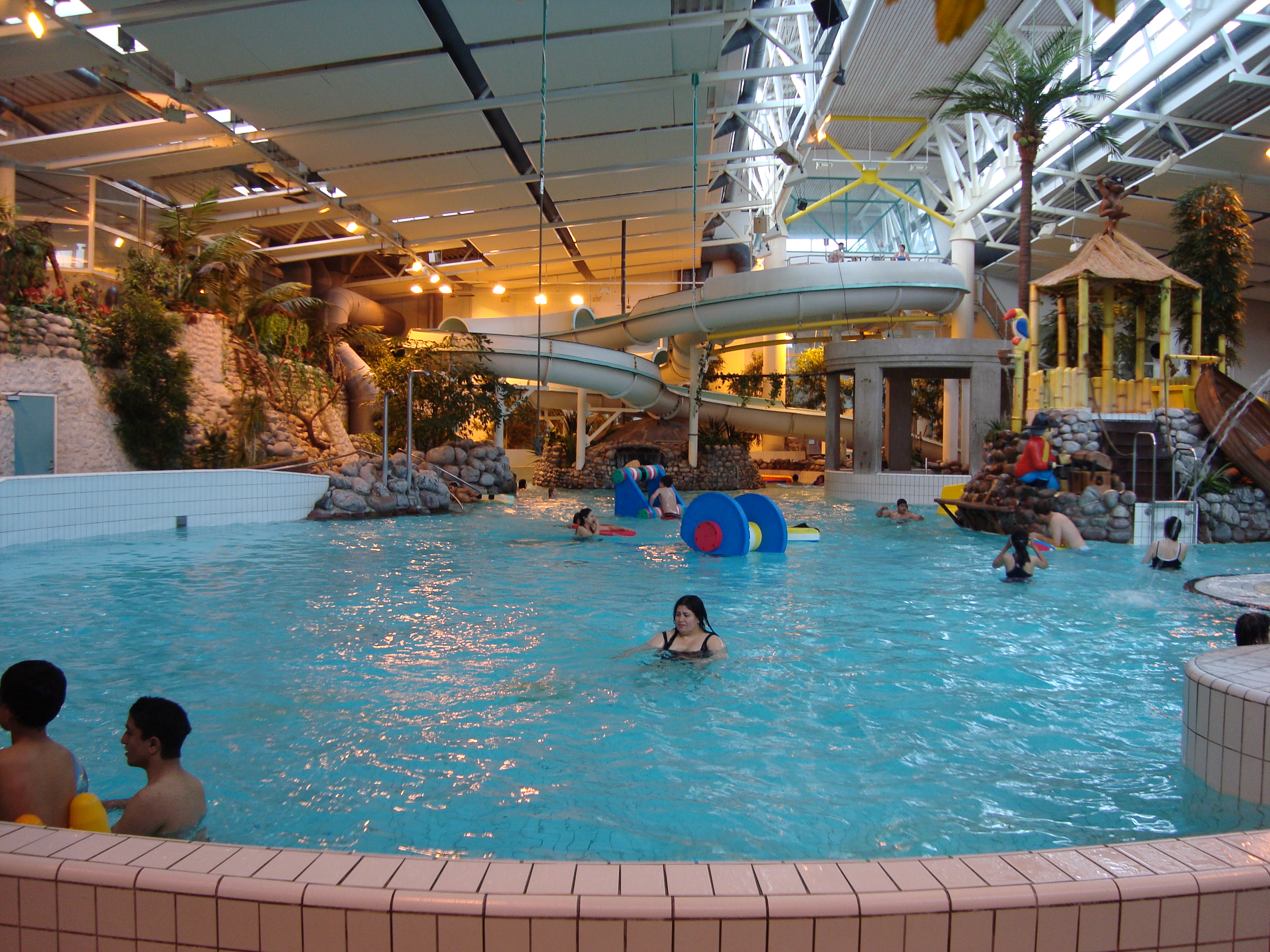 Adventure bath of Fyrishov, Uppsala, Sweden